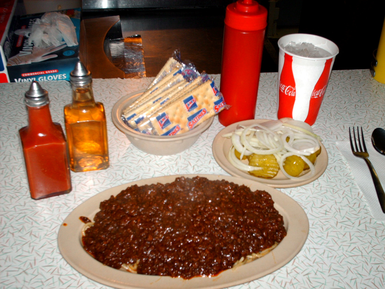 A plate of Spaghetti Red surrounded by frequently used condiments. Clockwise, from left: hot sauce, vinegar, saltine crackers, ketchup, onions, and pickles.